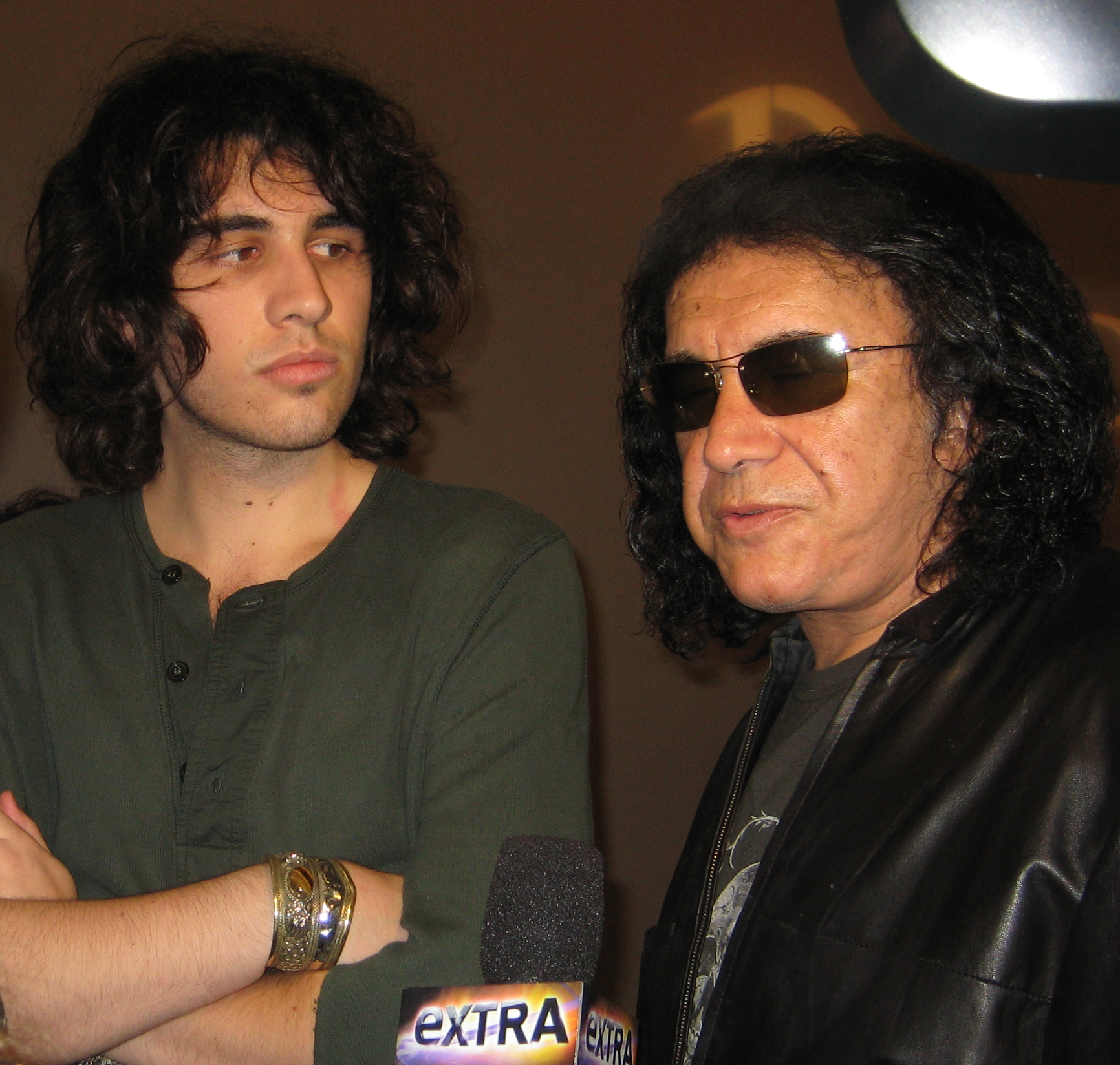 Nick Simmons with his father, Gene Simmons, at San Diego Hard Rock Hotel during the San Diego Comic Con 2009 on a red carpet event to celebrate the publication of Nick's comic book, Incarnate. Photograph by Patty Mooney, Crystal Pyramid Productions, San Diego, California.